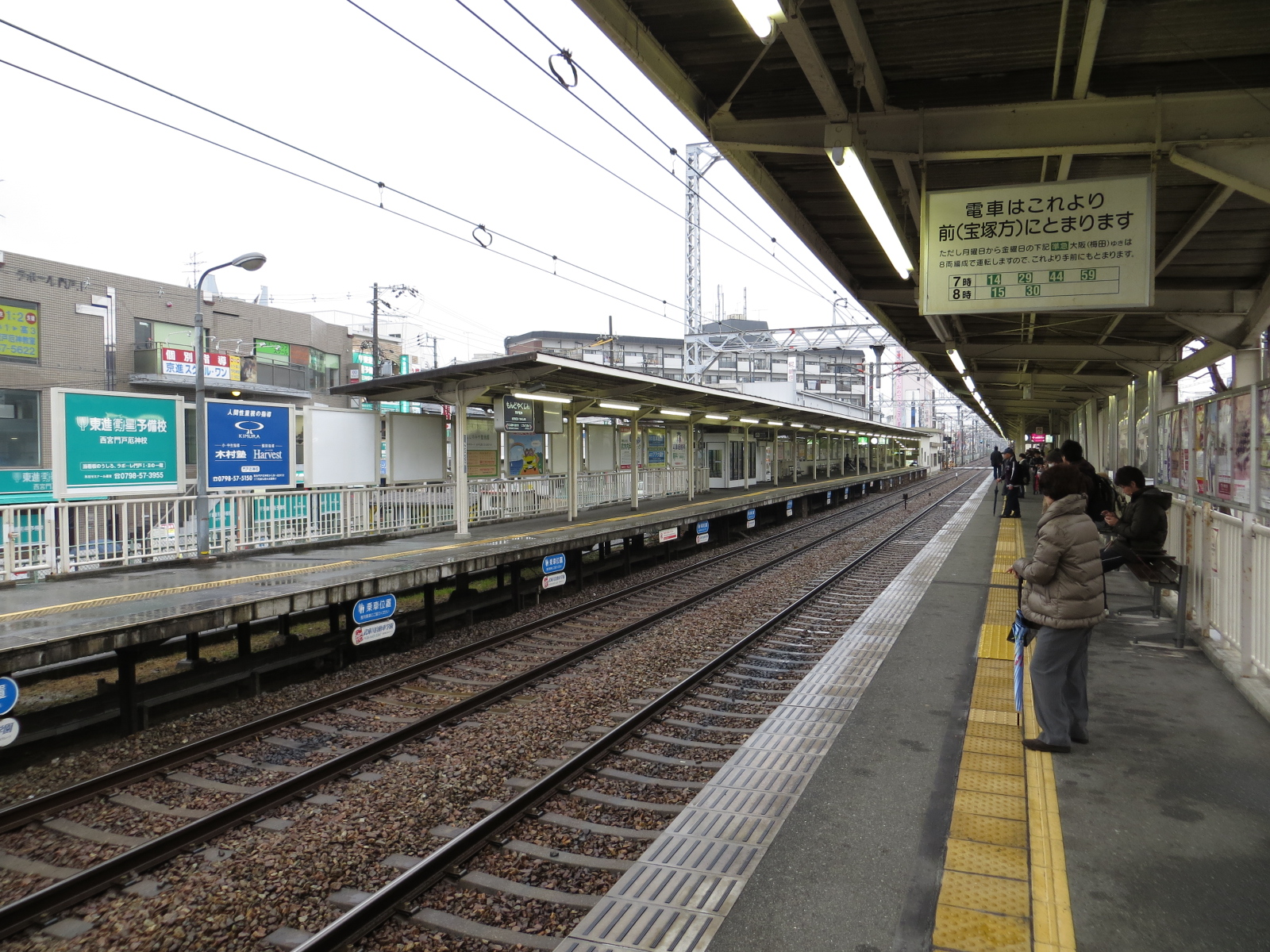 Platoform from Mondo-Yakujin Station(HK23).